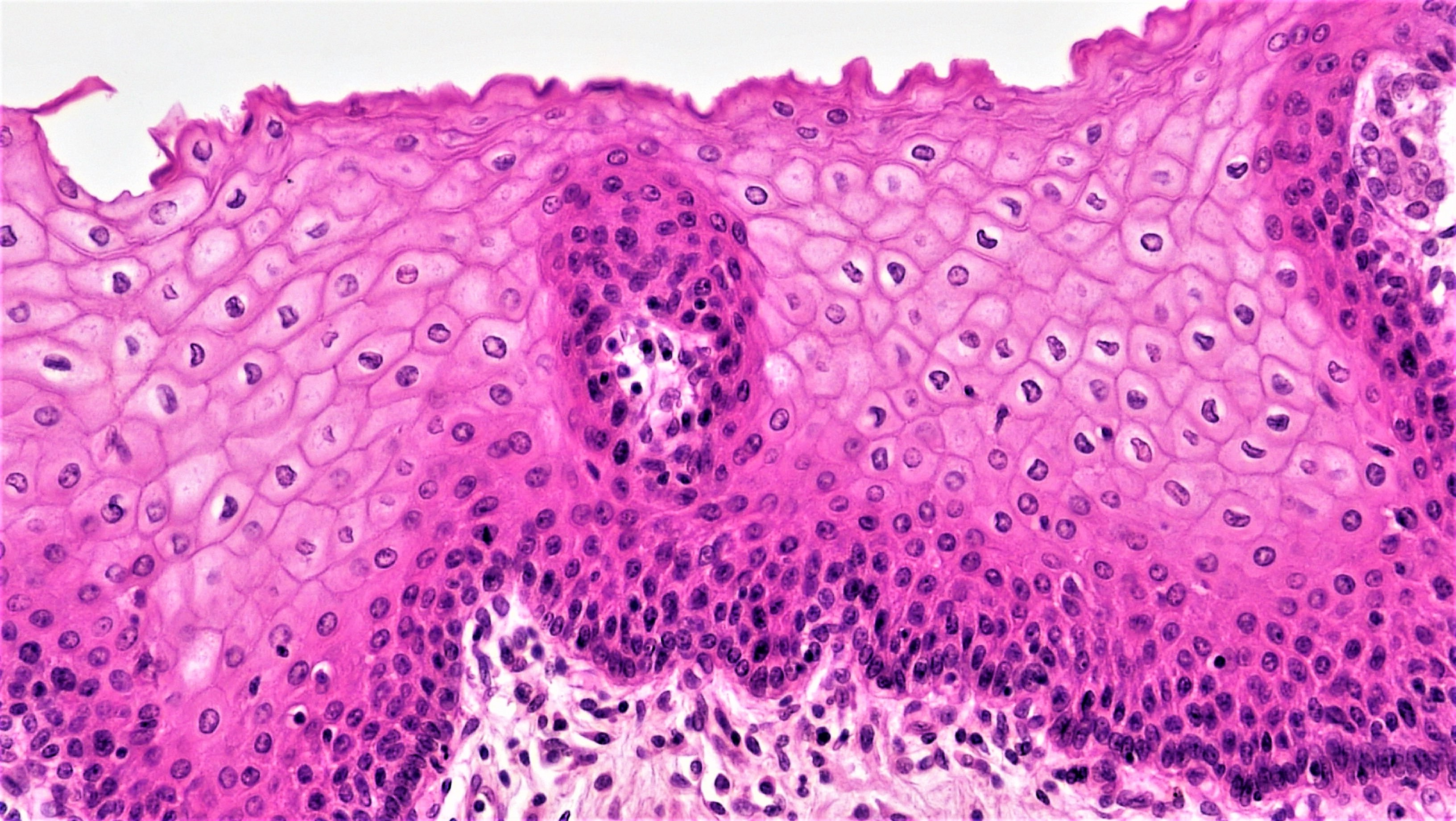 cross section: stratified squamous epithelium magnification: 200x